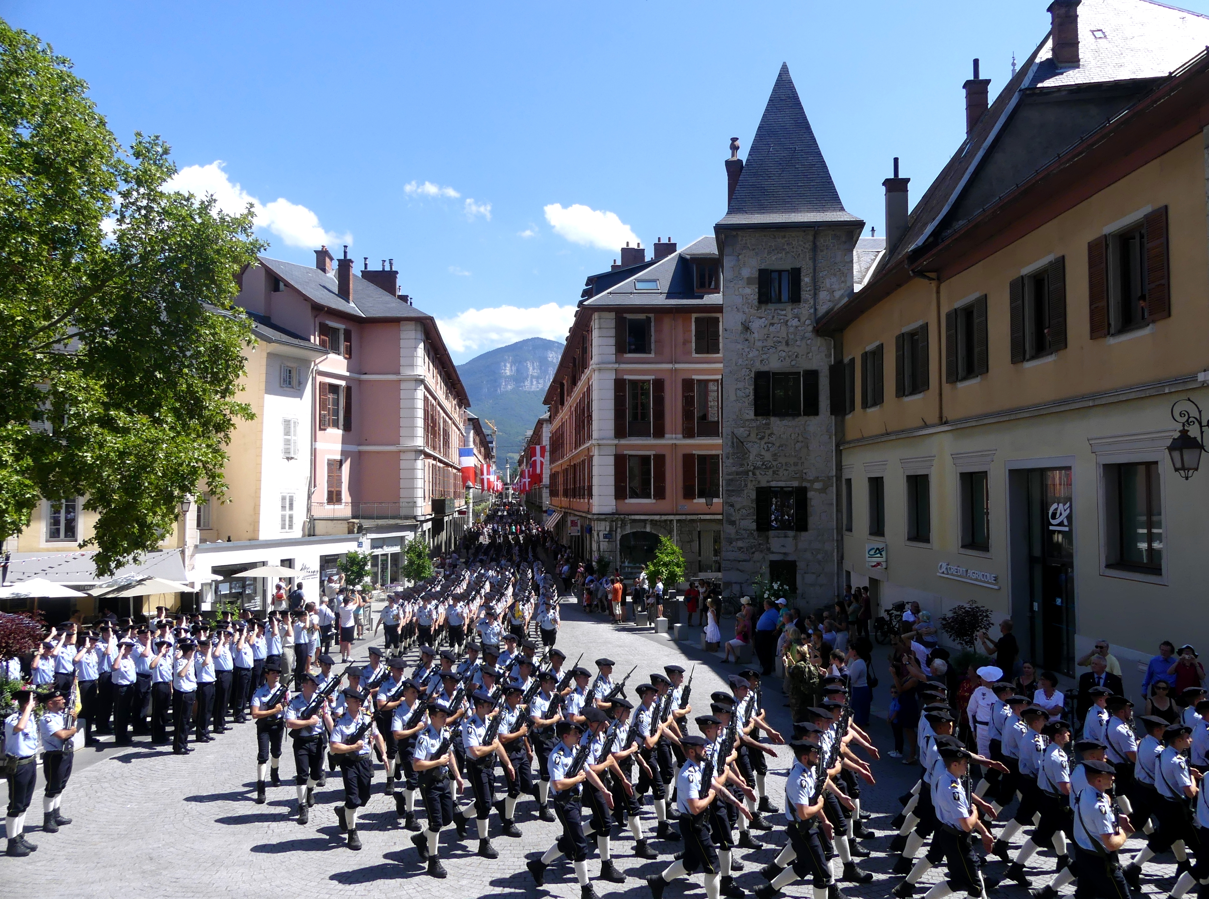 Sight of the 13ème Bataillon de chasseurs alpins (elite mountain infantry) military parade taking place at the foot of the Chambéry castle, in Savoie, France, during the 2018 change of command.